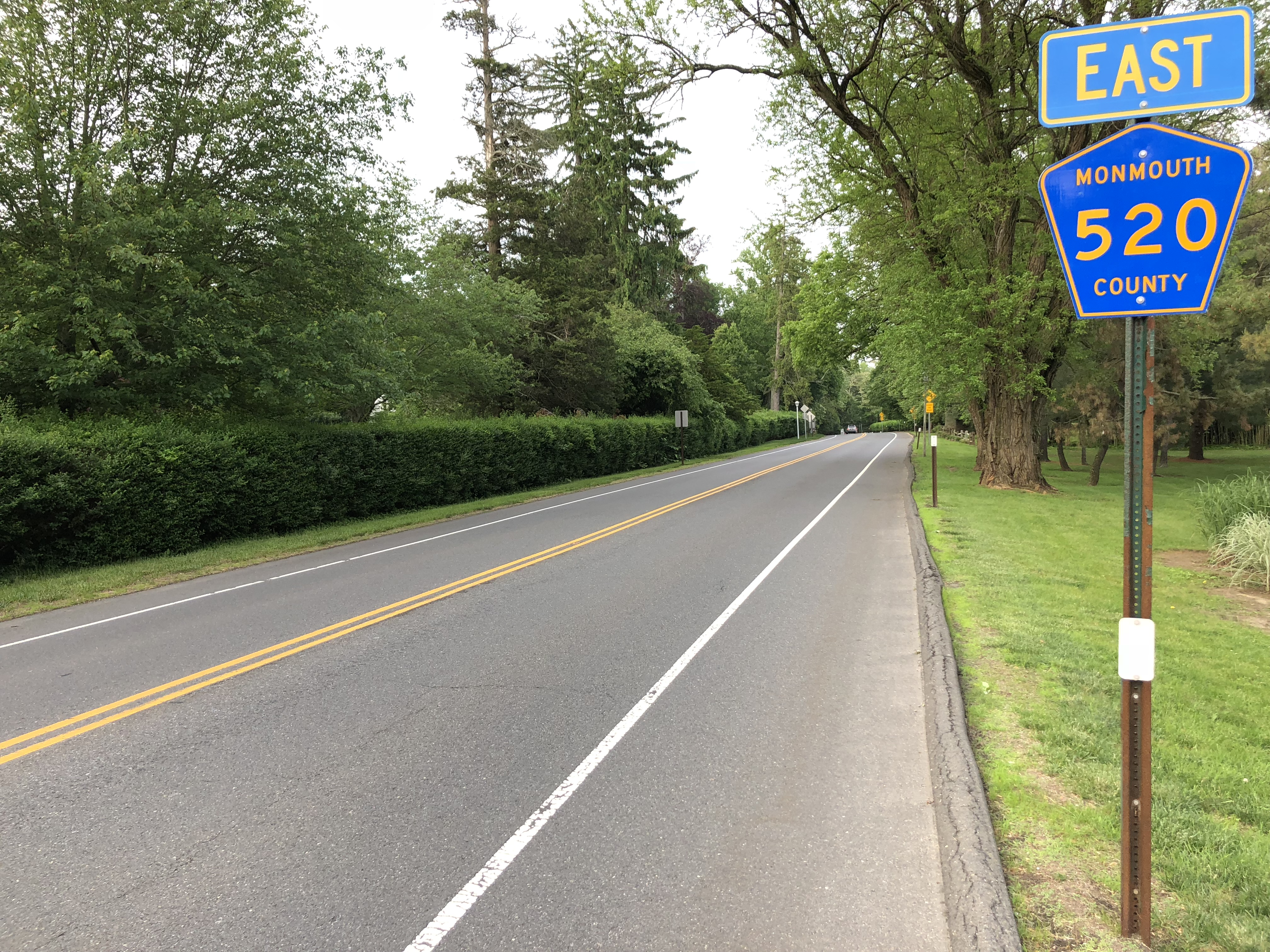 View east along Monmouth County Route 520 (Rumson Road) at Buena Vista Avenue in Rumson, Monmouth County, New Jersey